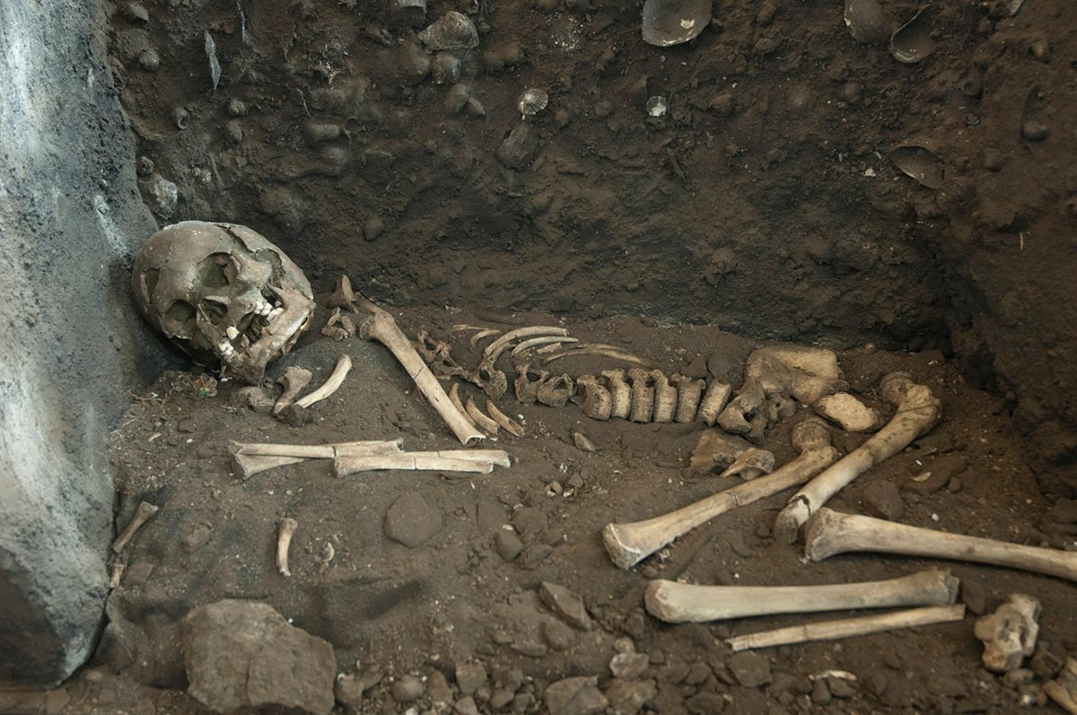 The skeleton of Vistegutten from Svarthola, Stavanger, Norway.